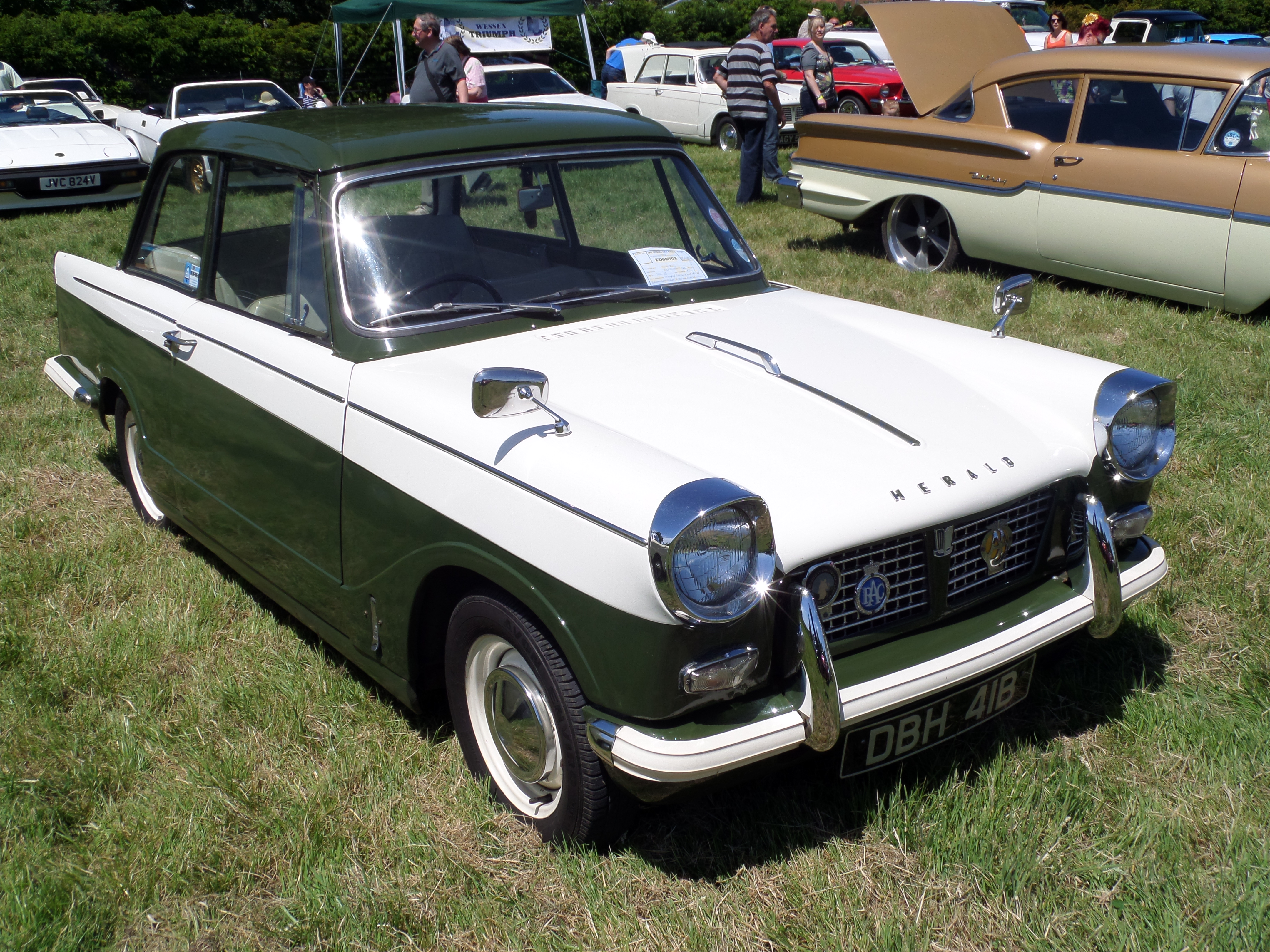 Spotted at the Wessex Car Show, Lulworth Castle, Dorset on Sunday 8th June 2014